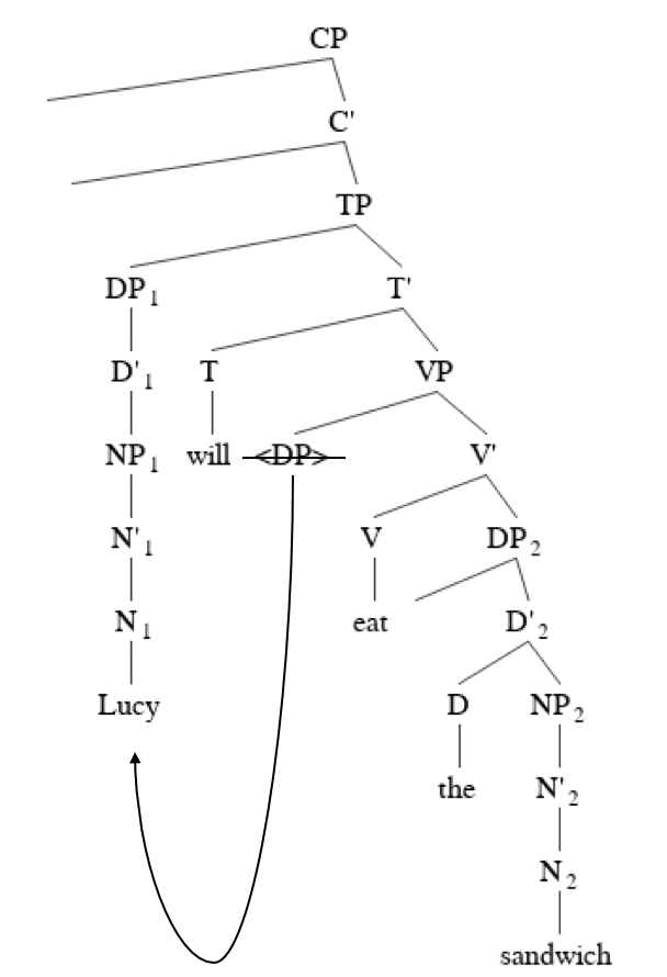 Lucy will eat sandwich.